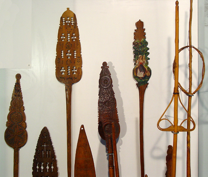 Various types of distaffs exhibited on the permanent display in the Museum of Vojvodina. Srpski (latinica): Različiti tipovi ručnih preslica izloženih na stalnoj postavci Muzeja Vojvodine.